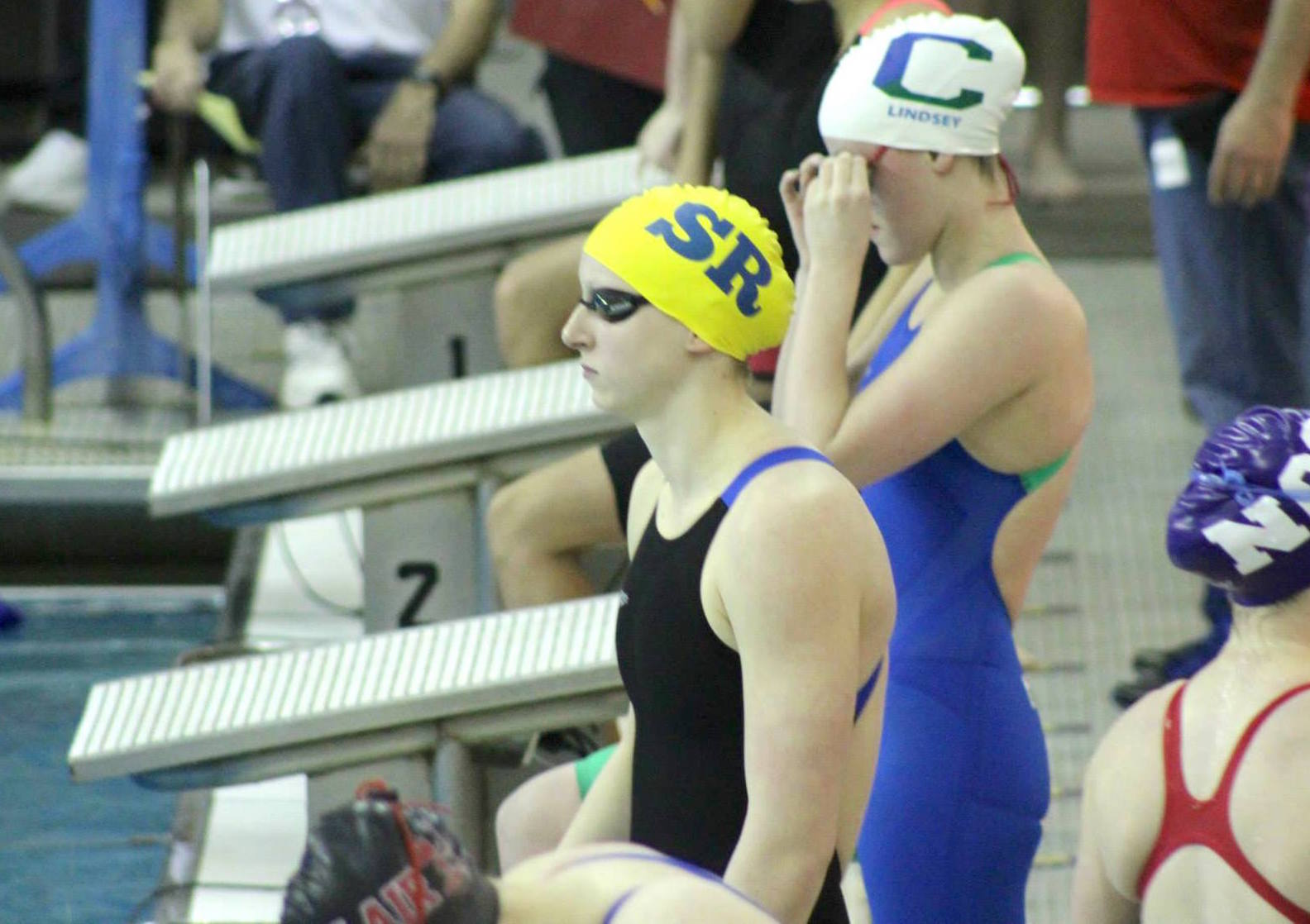 Ledecky before her last individual high school race.